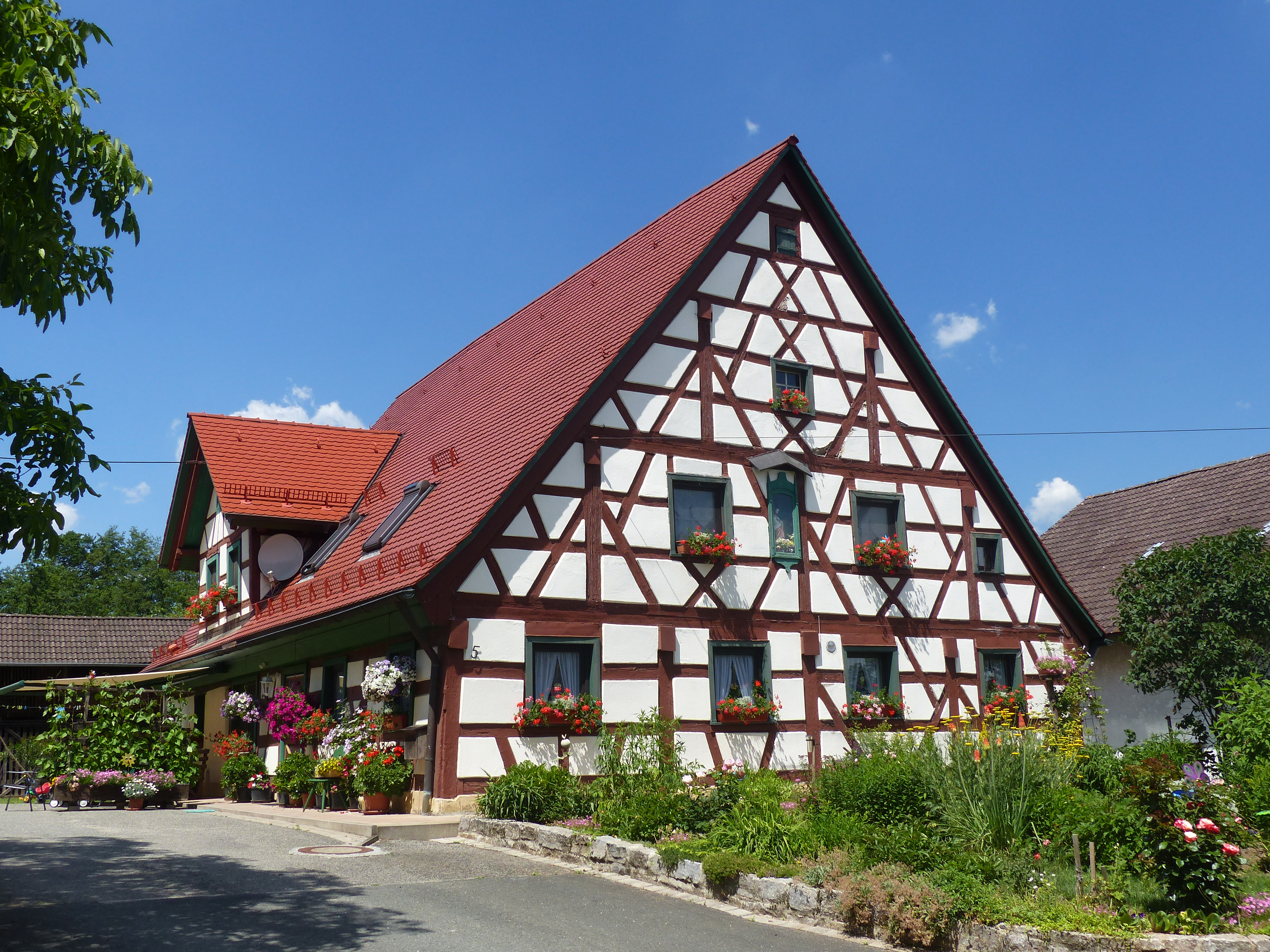 A farmhouse in the village Ebersbach, a district of the municipality of Neunkirchen am Brand.